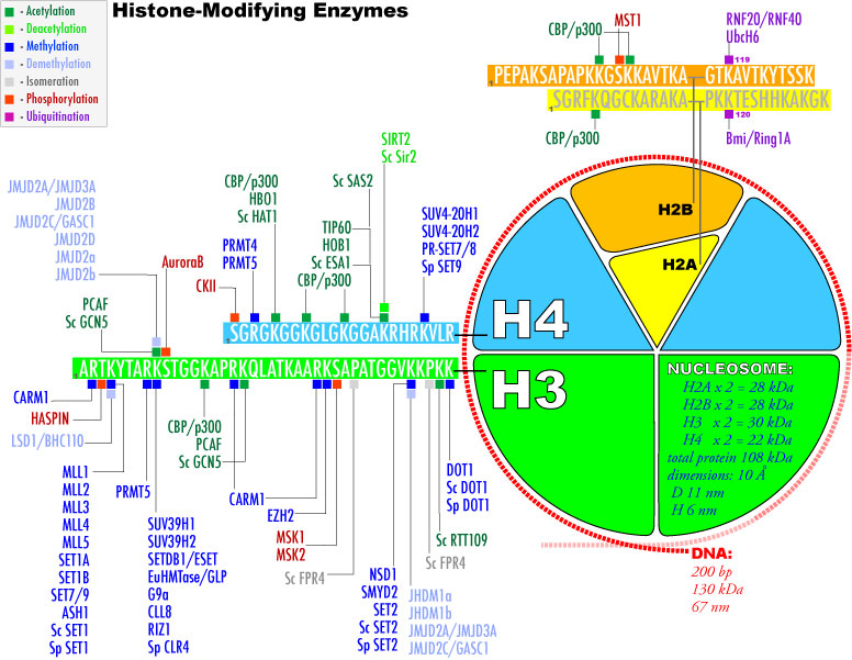 List and sites for Histone-Modifying Enzymes, created by Kosi Gramatikoff User:kosigrim